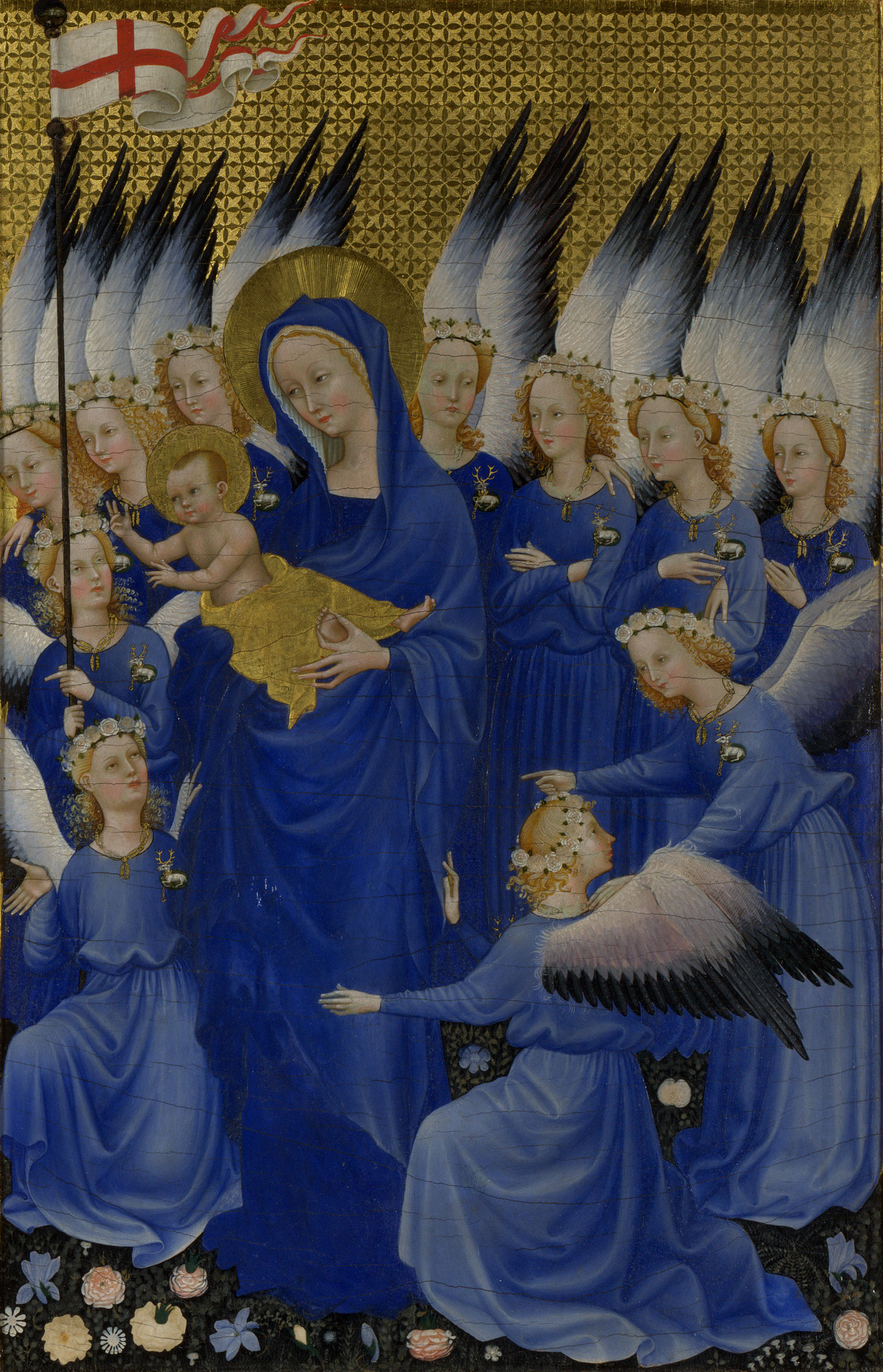 Christ, the Madonna and angels. The Wilton Diptych (c. 1395–1399) is a portable altarpiece taking the form of a diptych, painted for King Richard II. This is the right-hand panel.